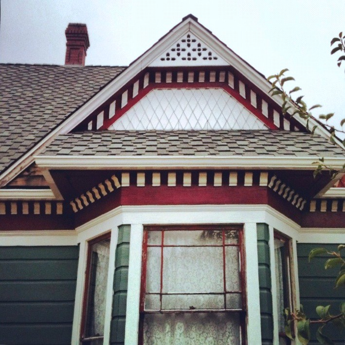 A picture of the Captain Calvin and Pamela Case House Bay window